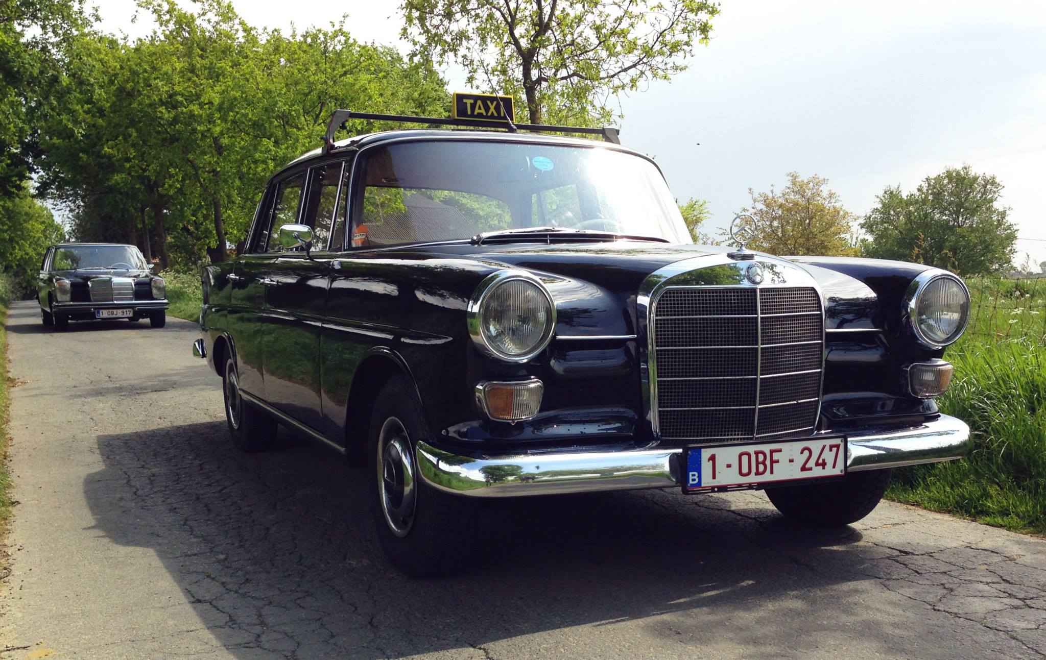 Original w110 Taxi